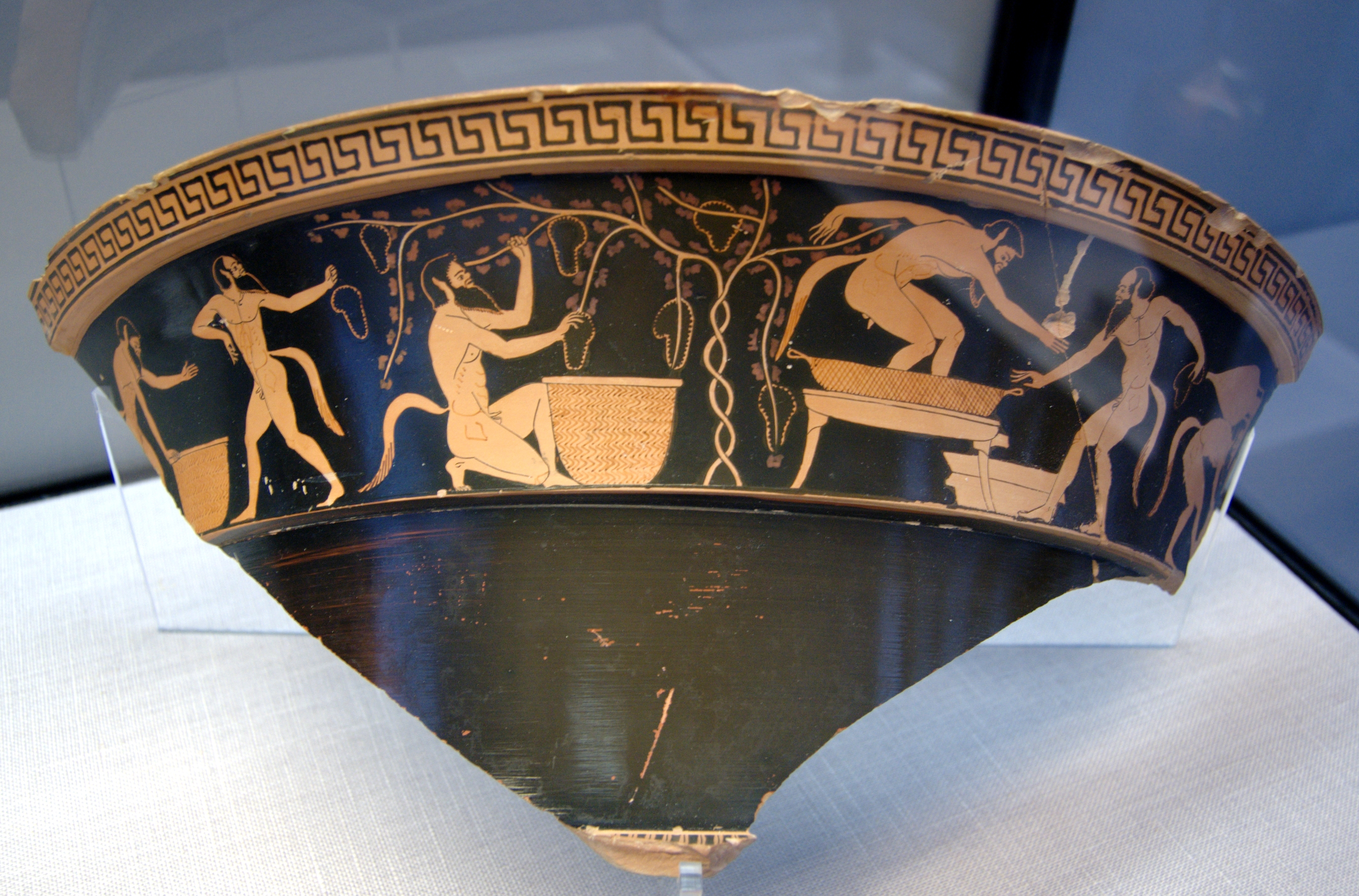 Sileni in wineyard. Attic red-figure volute-krater, ca. 490 BC. Staatliche Antikensammlungen (as of Feb. 2007), loan.